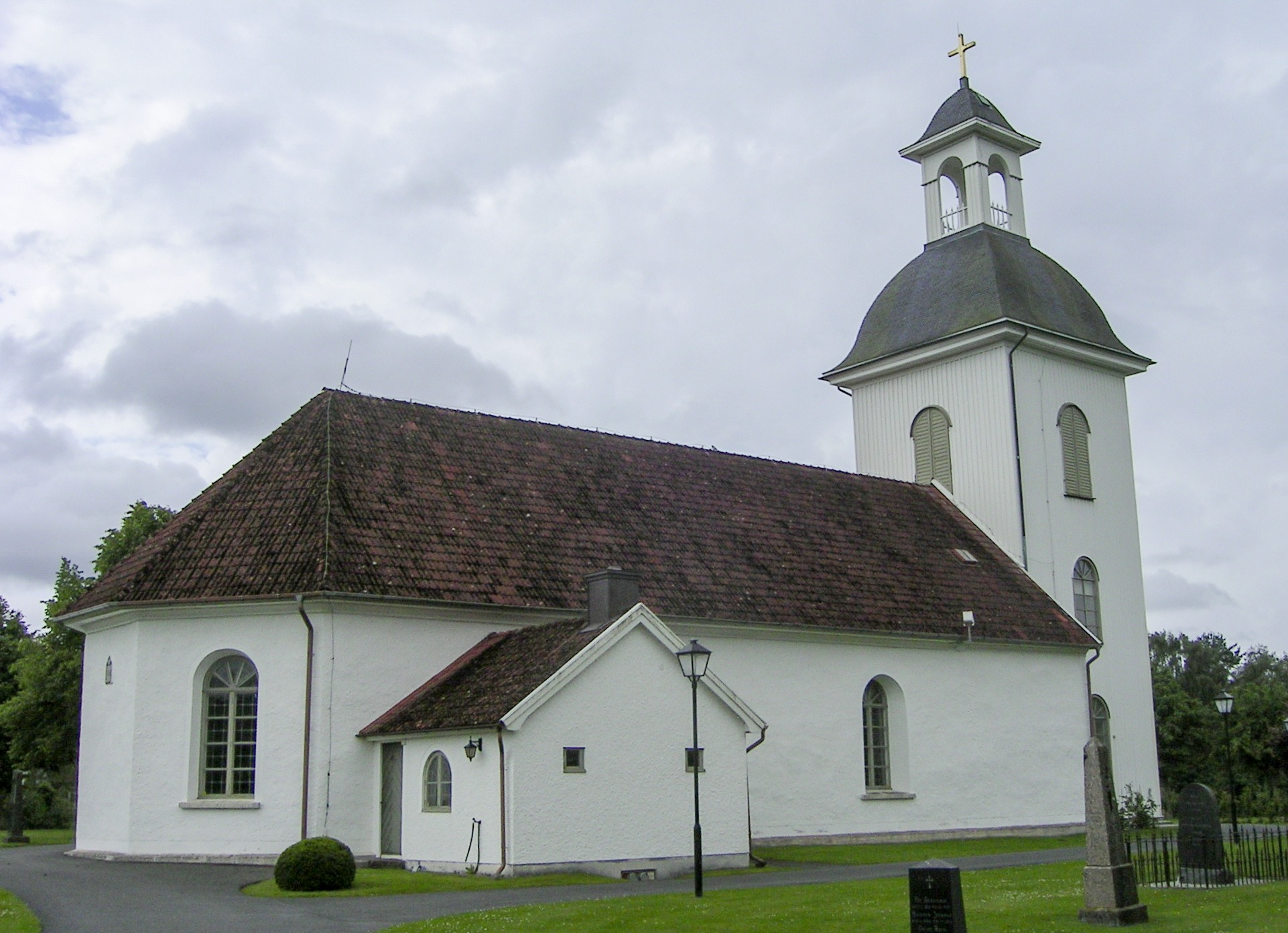 Church of Torestorp, Västergötland, Sweden